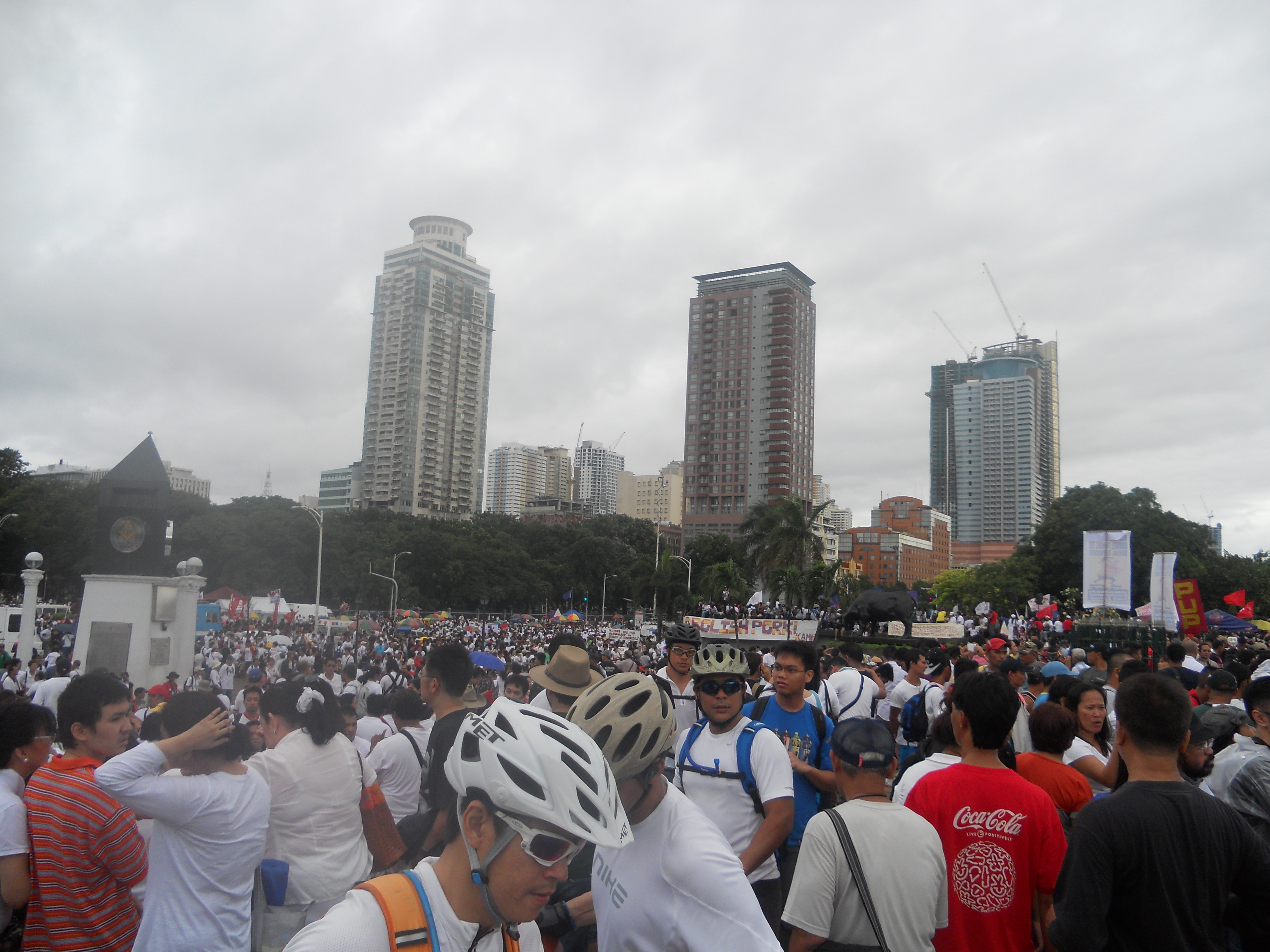 Million People March in Luneta against Pork Barrel